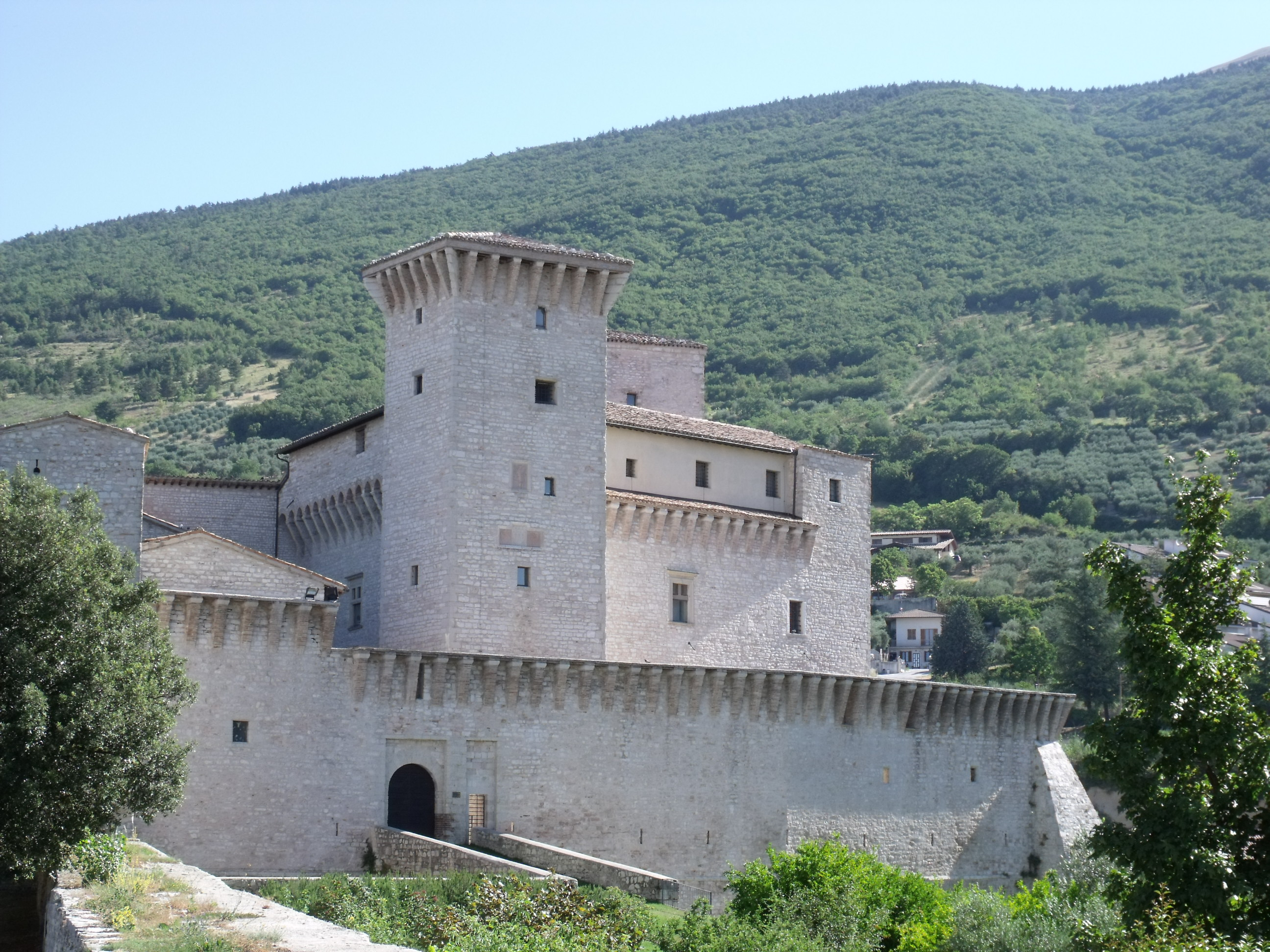 Rocca Flea in Gualdo Tadino, Province of Perugia, Umbria, Italy